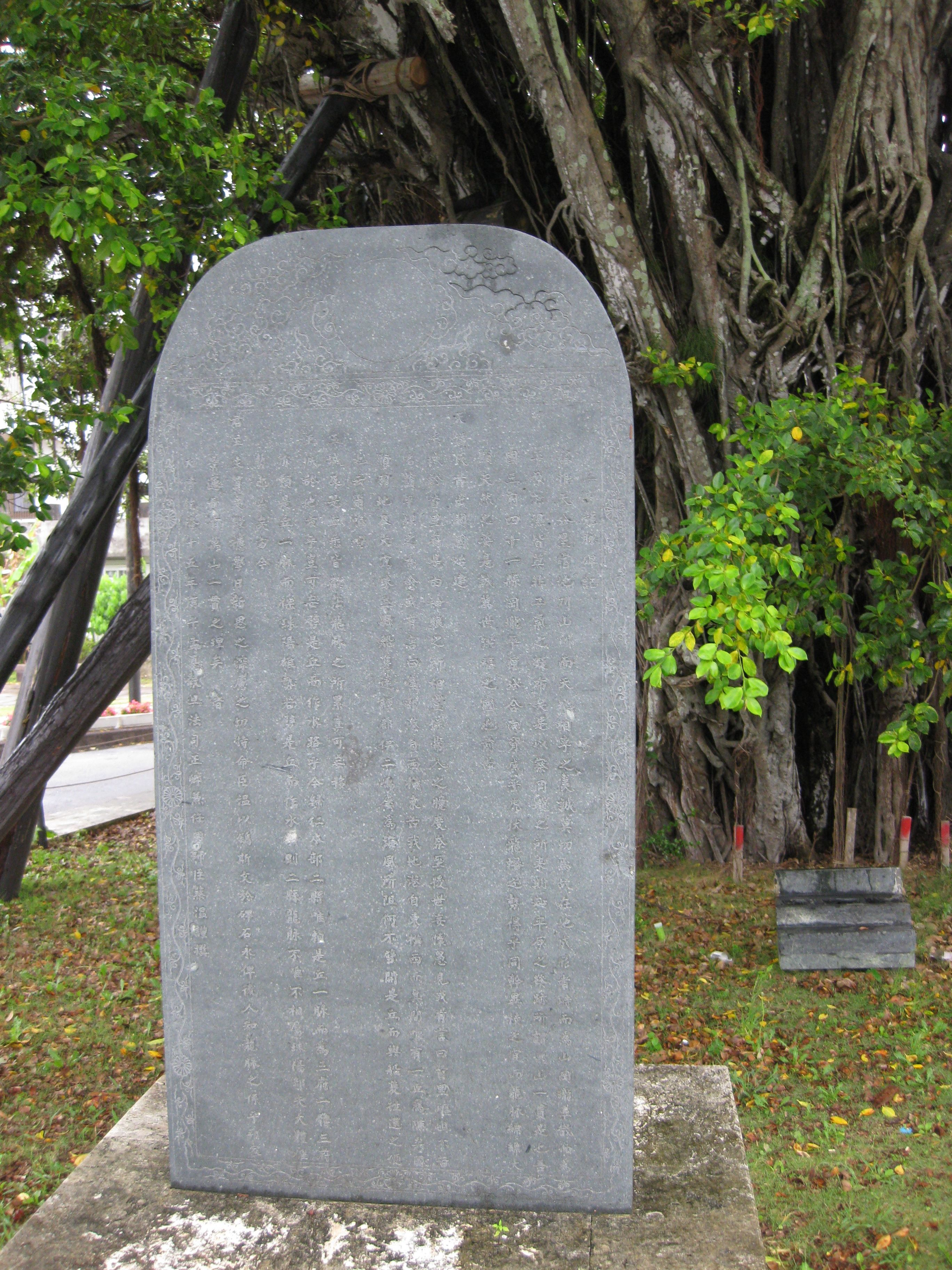 The Restored Sanpuryūmyakuhi Stele in Okinawa, Japan